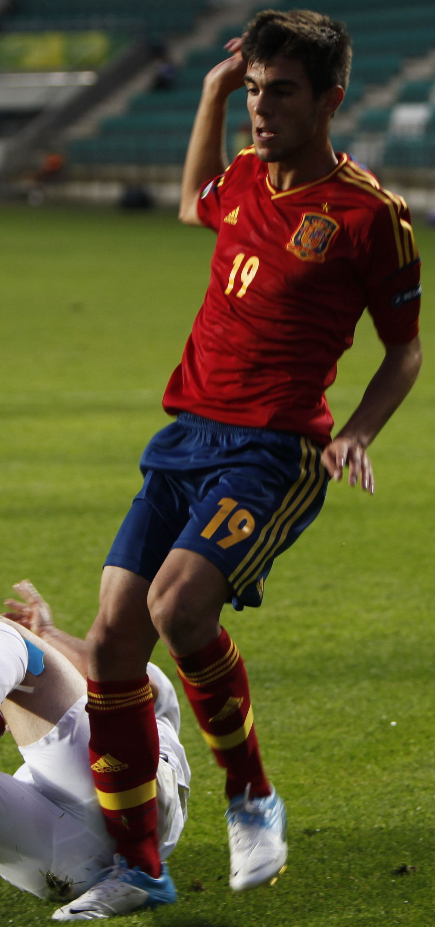 Salva Ruiz playing for Spain U-19 national football team